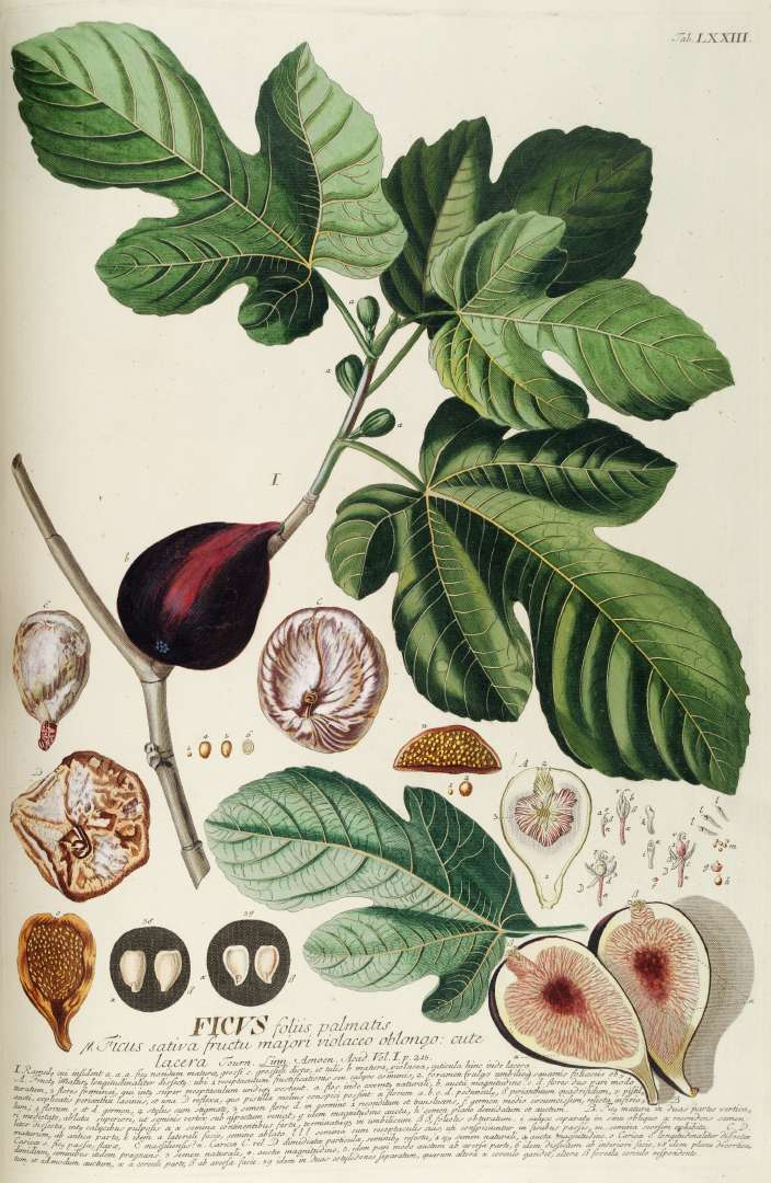 Trew, C.J., Plantae selectae quarum imagines ad exemplaria naturalia Londini, in hortis curiosorum nutrit, vol. 8: t. 73 (1771) [G.D. Ehret]